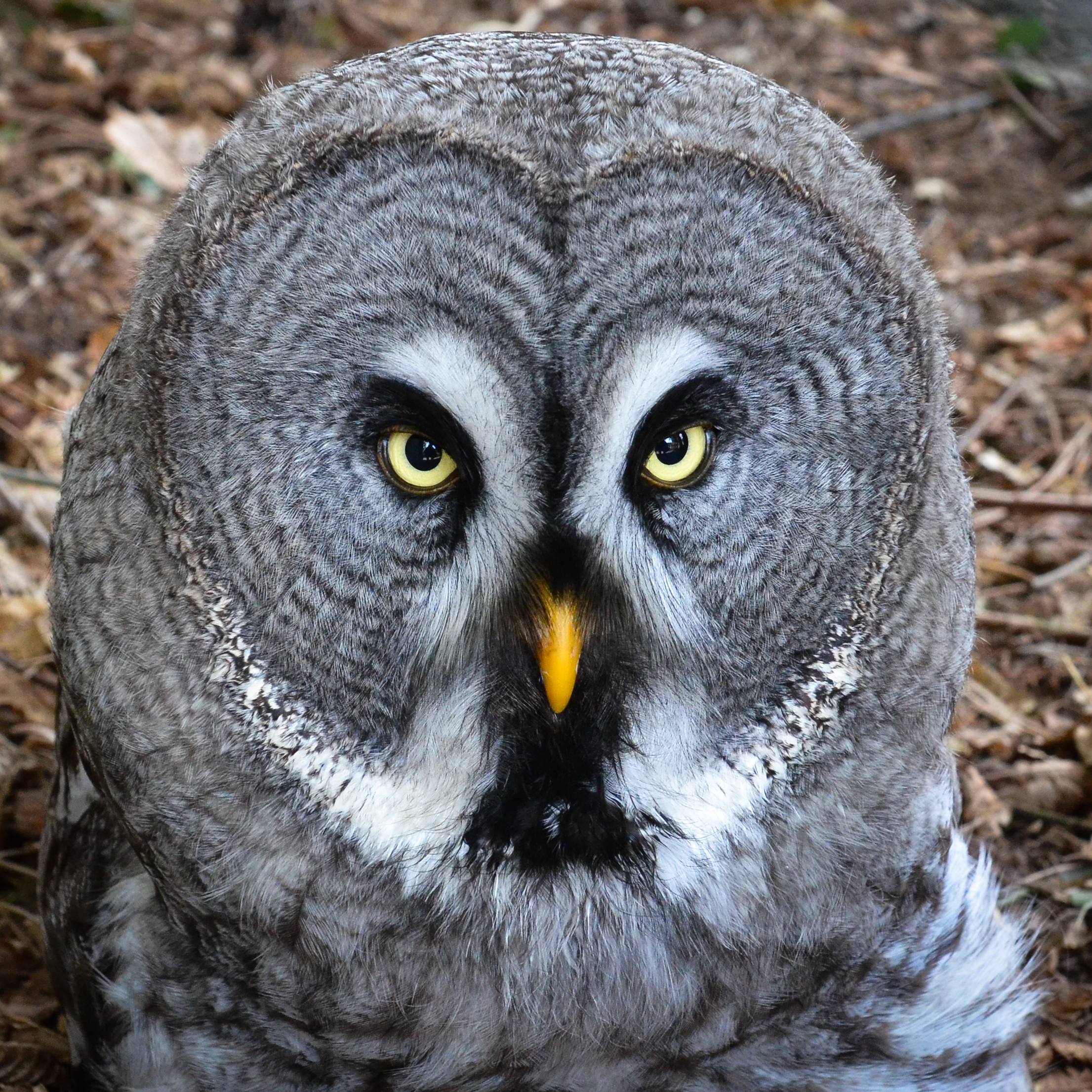 Great Grey Owl (Strix nebulosa) at Weltvogelpark Walsrode (Walsrode Bird Park, Germany)